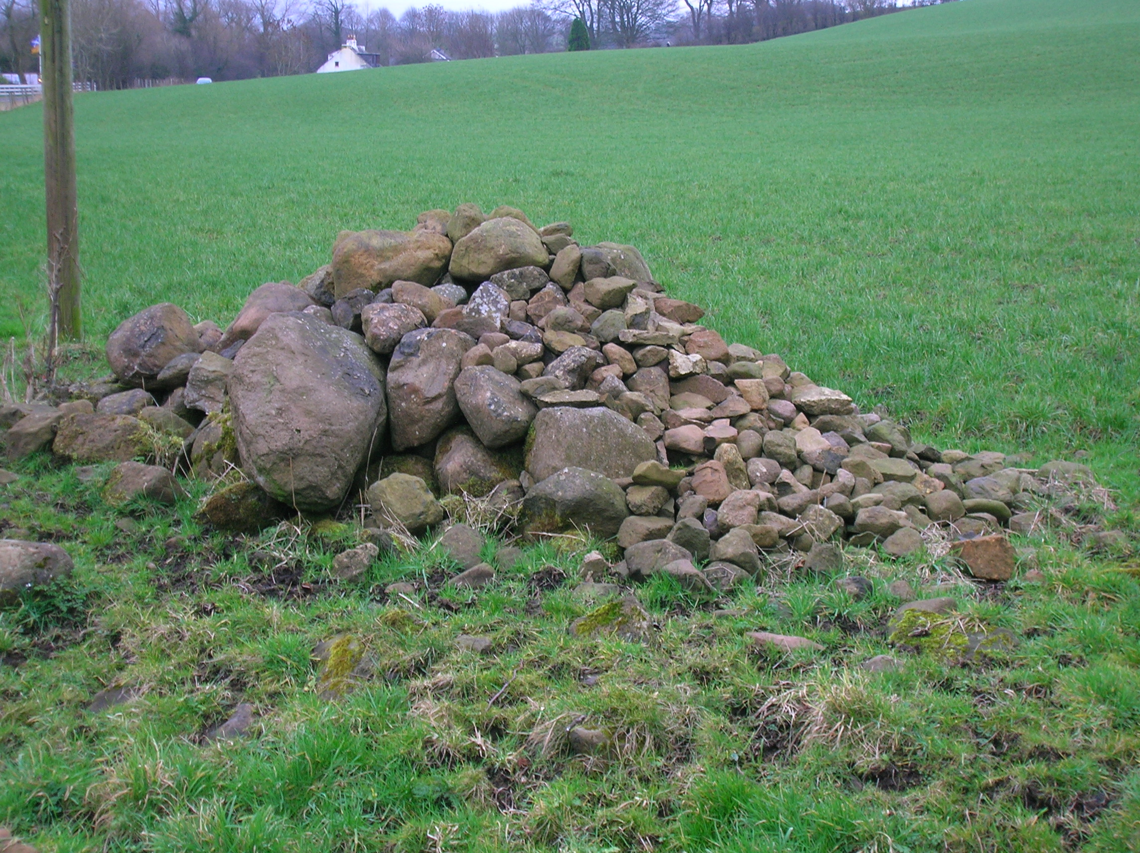 A recent clearance cairn, Dalgarven, North Ayrshire, Scotland